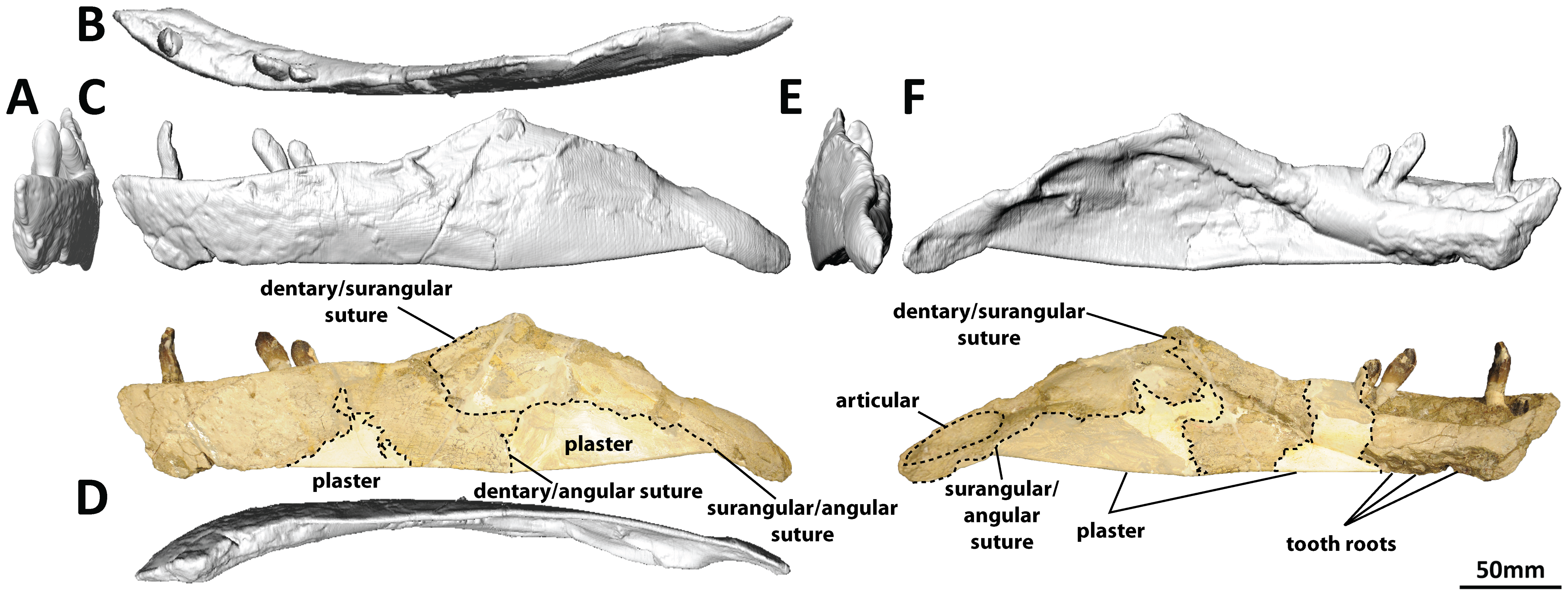 Left dentary and surangular (PMU 24705/1o [formerly PMU R 233 a]) of Euhelopus zdanskyi in rostral (A), dorsal (B), left lateral (C), ventral (D), caudal (E), and medial (F) views. Note that the area which would have accommodated the angular has been reconstructed with plaster and painted; other white patches also represent areas that have been reconstructed in plaster.